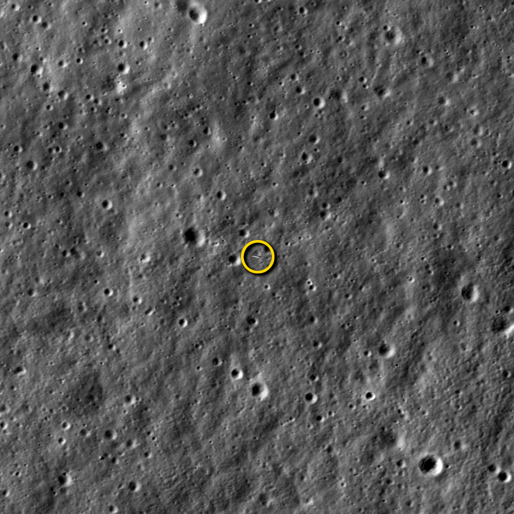 NASA's LRO Snaps a Picture of NASA's LADEE Spacecraft - With precise timing, the camera aboard NASA's Lunar Reconnaissance Orbiter (LRO) was able to take a picture of NASA's Lunar Atmosphere and Dust Environment Explorer (LADEE) spacecraft as it orbited our nearest celestial neighbor. The Lunar Reconnaissance Orbiter Camera (LROC) operations team worked with its LADEE and LRO operations counterparts to make the imaging possible. LADEE is in an equatorial orbit (east-to-west) while LRO is in a polar orbit (south-to-north). The two spacecraft are occasionally very close and on Jan. 15, 2014, the two came within 5.6 miles (9 km) of each other. As LROC is a push-broom imager, it builds up an image one line at a time, so catching a target as small and fast as LADEE is tricky. Both spacecraft are orbiting the moon with velocities near 3,600 miles per hour (1,600 m/s), so timing and pointing of LRO must be nearly perfect to capture LADEE in an LROC image. LADEE passed directly beneath the LRO orbit plane a few seconds before LRO crossed the LADEE orbit plane, meaning a straight down LROC image would have just missed LADEE. The LADEE and LRO teams worked out the solution: simply have LRO roll 34 degrees to the west so the LROC detector (one line) would be in the right place as LADEE passed beneath. As planned at 8:11 p.m. EST on Jan. 14, 2014, LADEE entered LRO's Narrow Angle Camera (NAC) field of view for 1.35 milliseconds and a smeared image of LADEE was snapped. LADEE appears in four lines of the LROC image, and is distorted right-to-left.